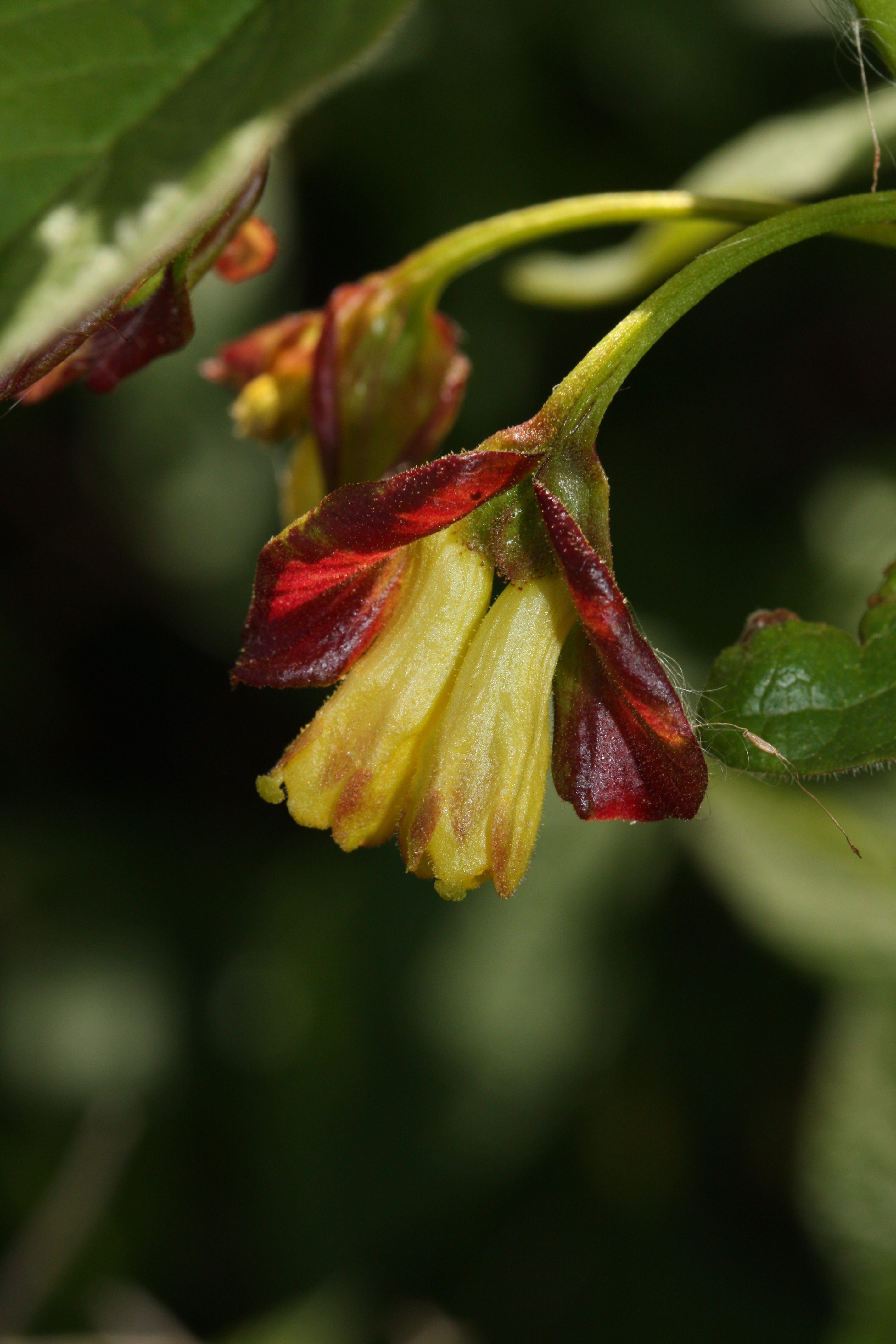 Twinberry Honeysuckle, Black Twin-berry, Twinberry, Bearberry (Richardson) Banks ex Spreng.